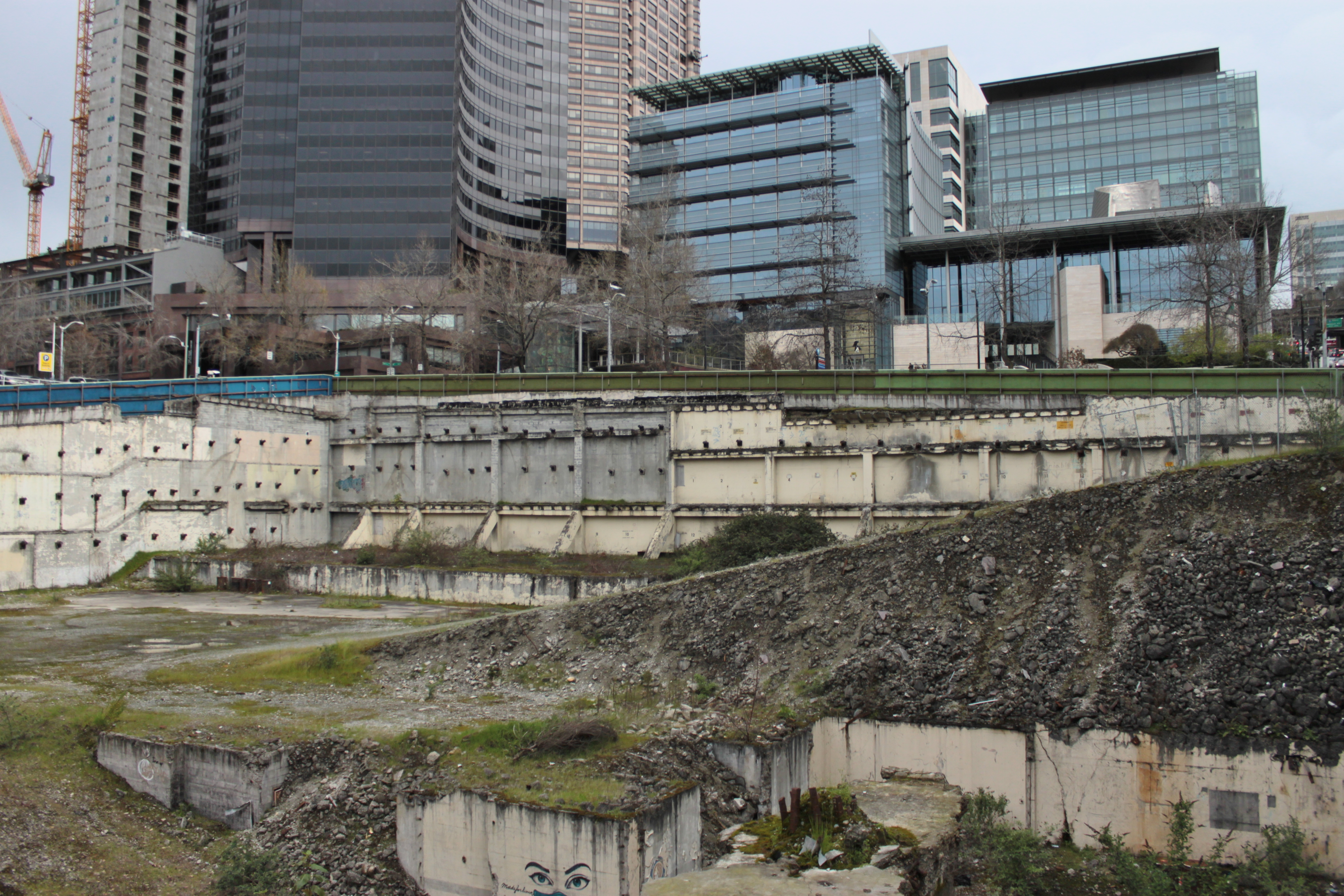 The site of the cancelled Seattle Civic Square project in downtown Seattle. The Seattle City Hall can be seen in the background, overlooking the project.